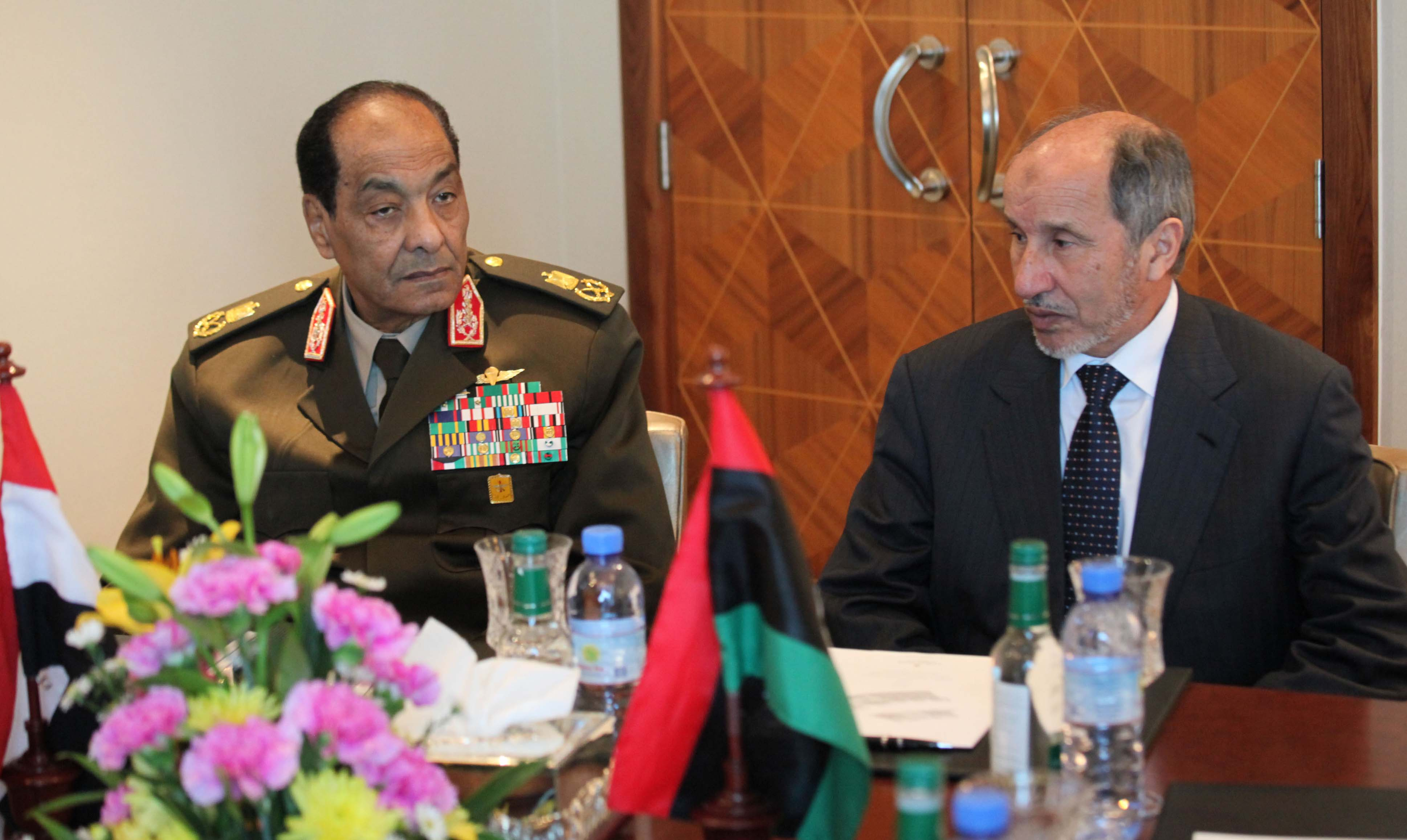 Egyptian Field Marshall Hussein Tantawi chose Libya as his first official trip abroad. المشير حسين طنطاوي اختار ليبيا في أول زيارة له إلى الخارج. Le maréchal égyptien Hussein Tantawi a choisi la Libye pour son premier déplacement officiel à l'étranger.